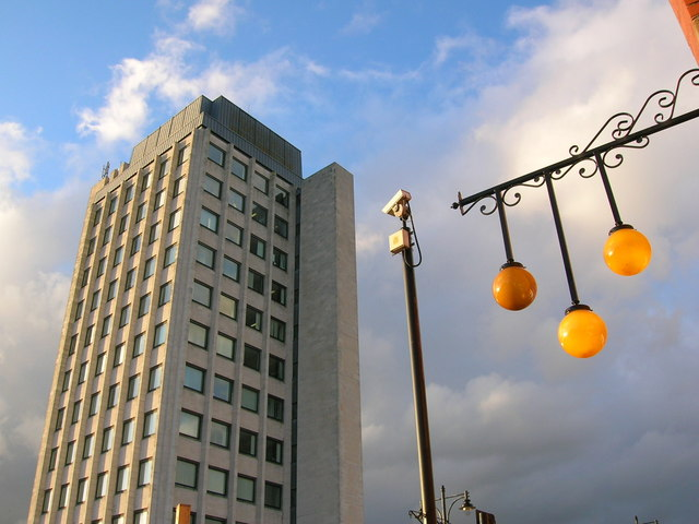 The Civic Centre, at Oldham, Greater Manchester, England.